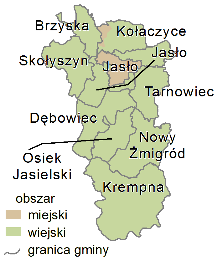 Subcarpathian Voivodeship - jasielski county gminas